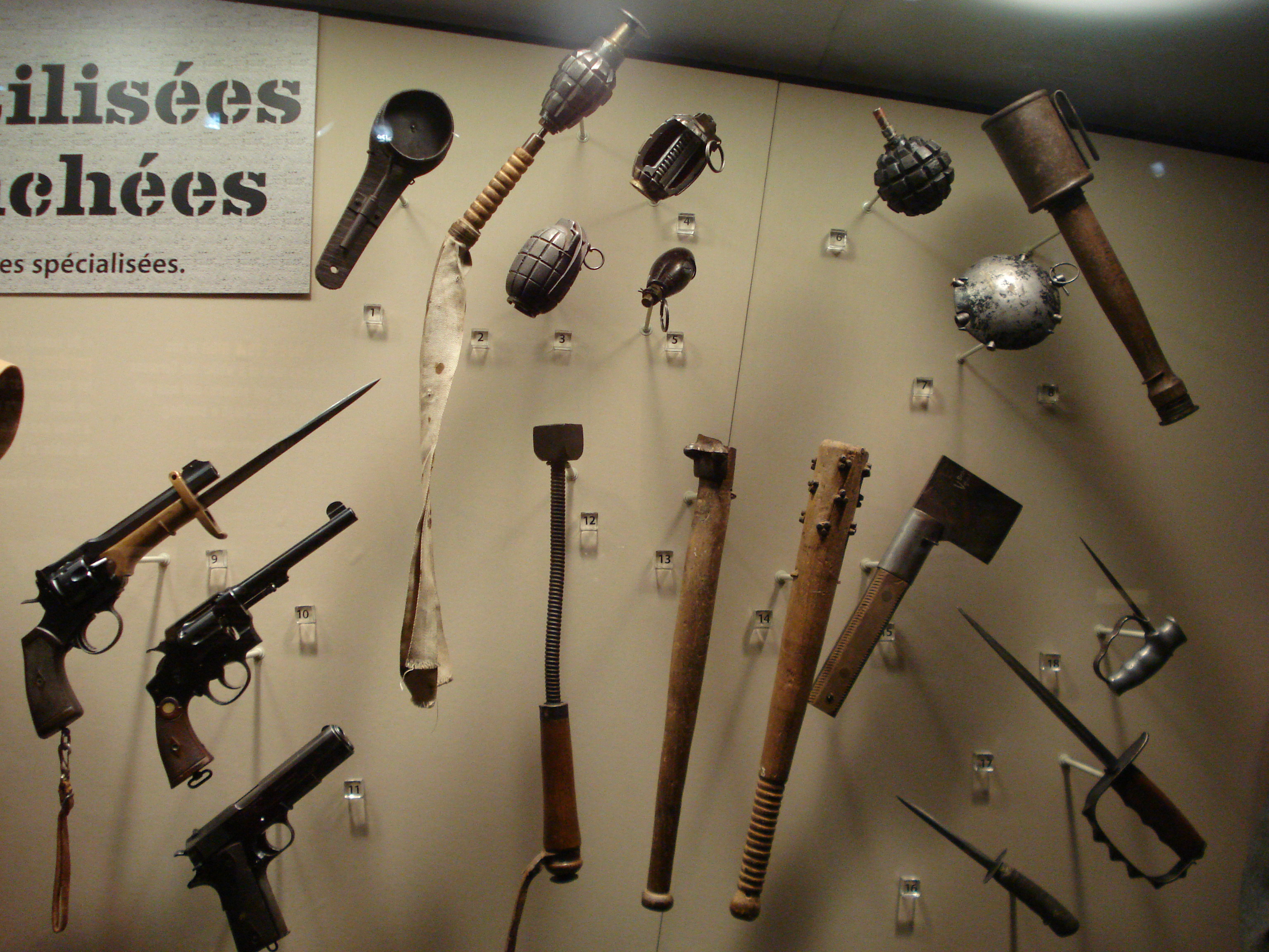 Trench weapons used by British and Canadian soldiers in WWI on display at the Canadian War Museum in Ottawa. To the left is a British Webley Mk VI revolver with an attached Pritchard bayonet.